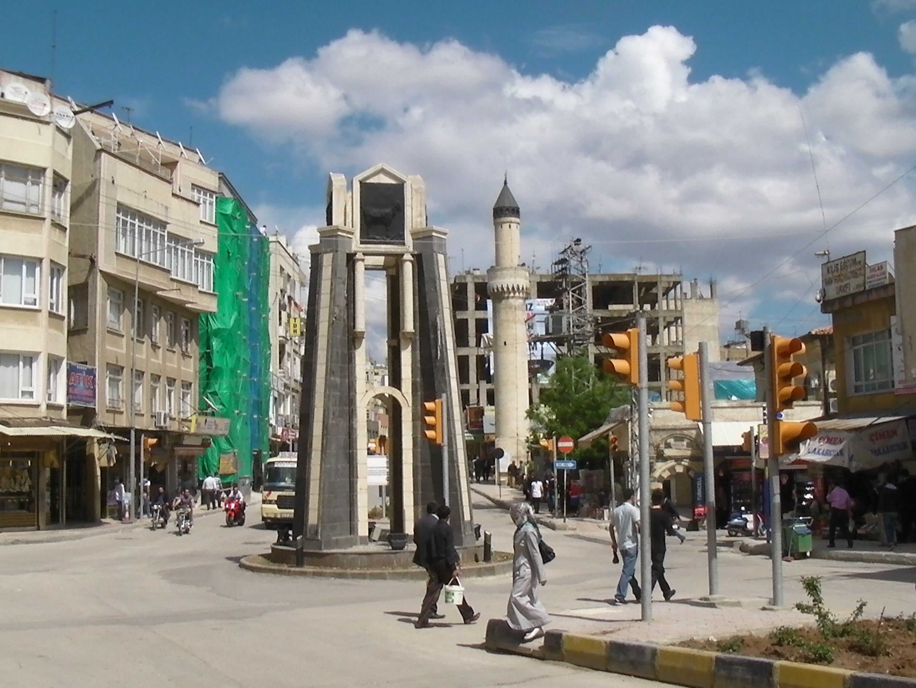 Photo taken at or near the center of Kilis, Turkey. Elevation here is about 663 meters.